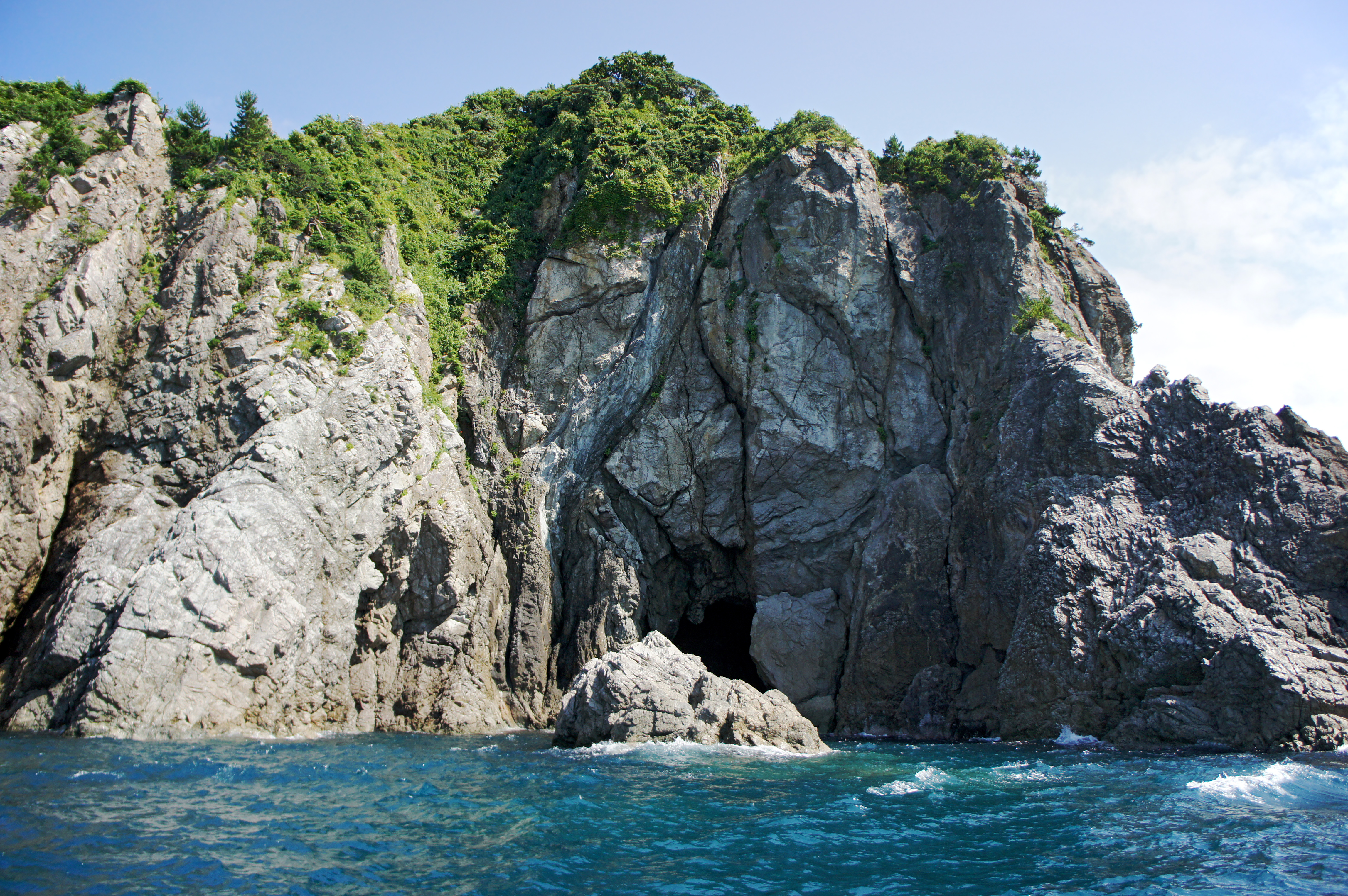 Ryugu-domon of Tajima mihonoura in Shinonsen, Hyogo prefecture, Japan